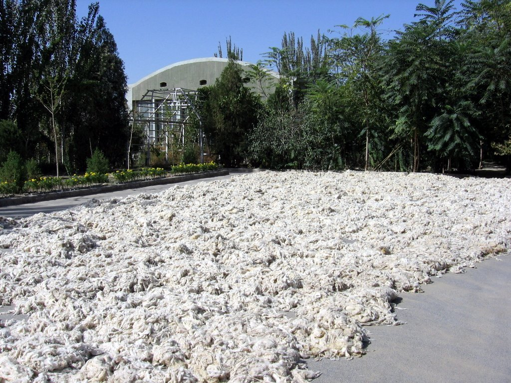 Khotan (Hotan / Hetian) is an oasis city in the Xinjiang Uygur Autonomous Region of the People's Republic of China. Carpet factory.